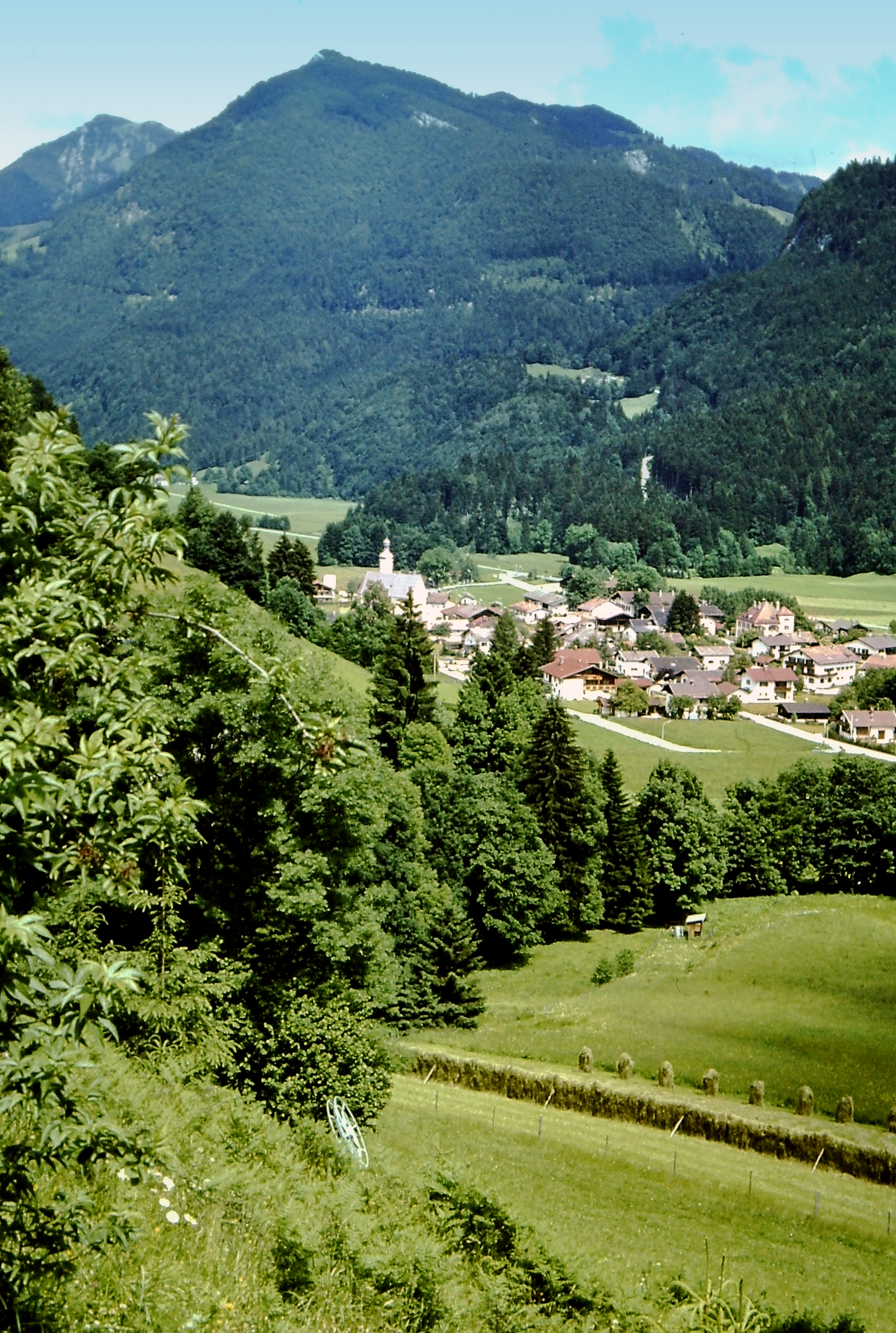 View to Sachrang in Bavaria, Germany.